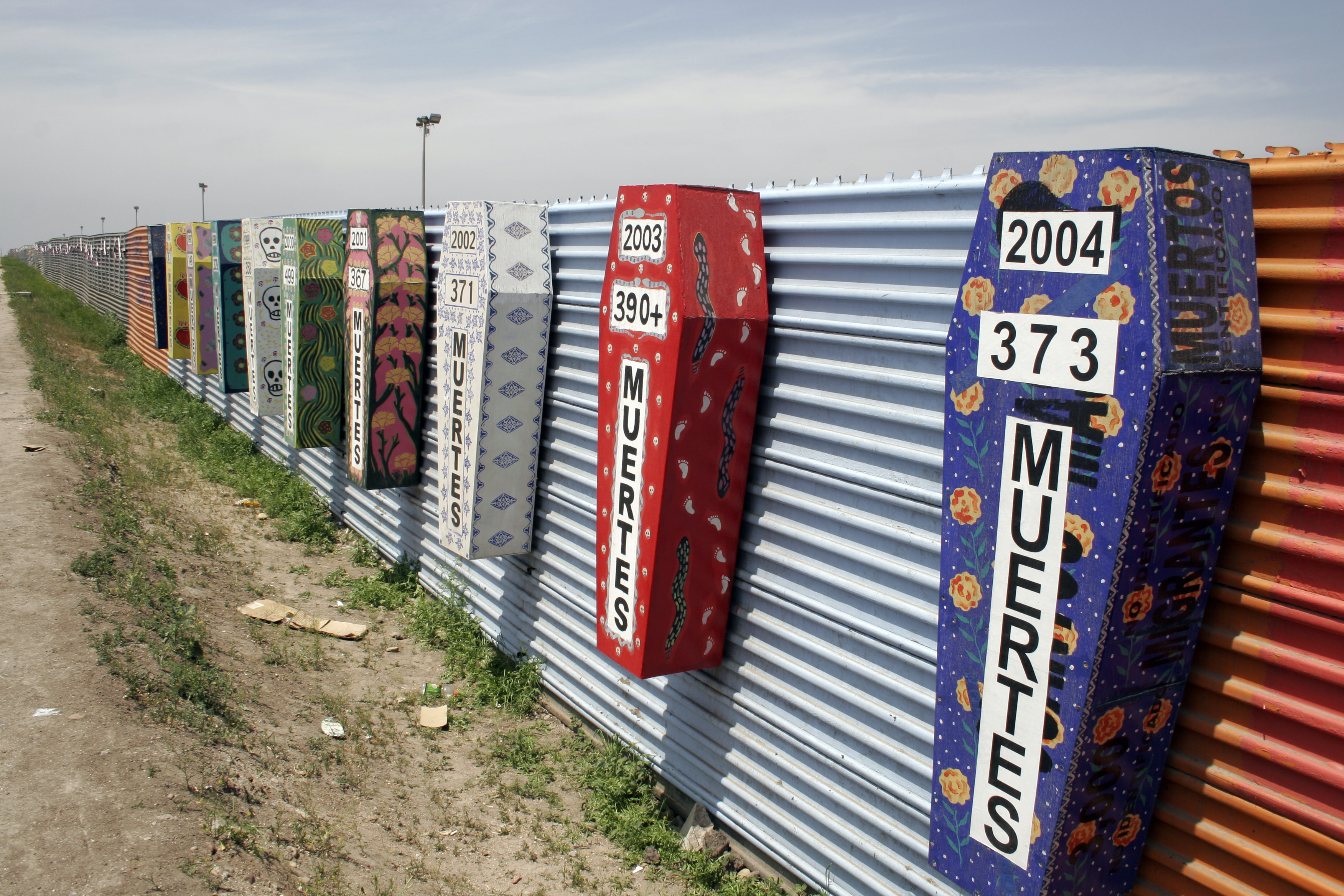 Memorial coffins on the US-Mexico barrier for those killed crossing the border fence in Tijuana, México.